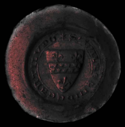 1301 seal of William de Cantilupe, Lord of Ravensthorpe. Colour of original seal: Red. Physical format: Plaster mould cast from original seal. Pendant to the Barons' Letter of 1301 - series B. Latin legend: S(igillum) Willielmi de Cantilupo ("seal of William de Cantilupe"). Red Wax; the National Archives, UK. PRO 23-926. For a better image see M Julian-Jones, Thesis on de Cantilupe and Corbet families, 2015, Online Research @Cardiff (ORCA), Cardiff University[1]